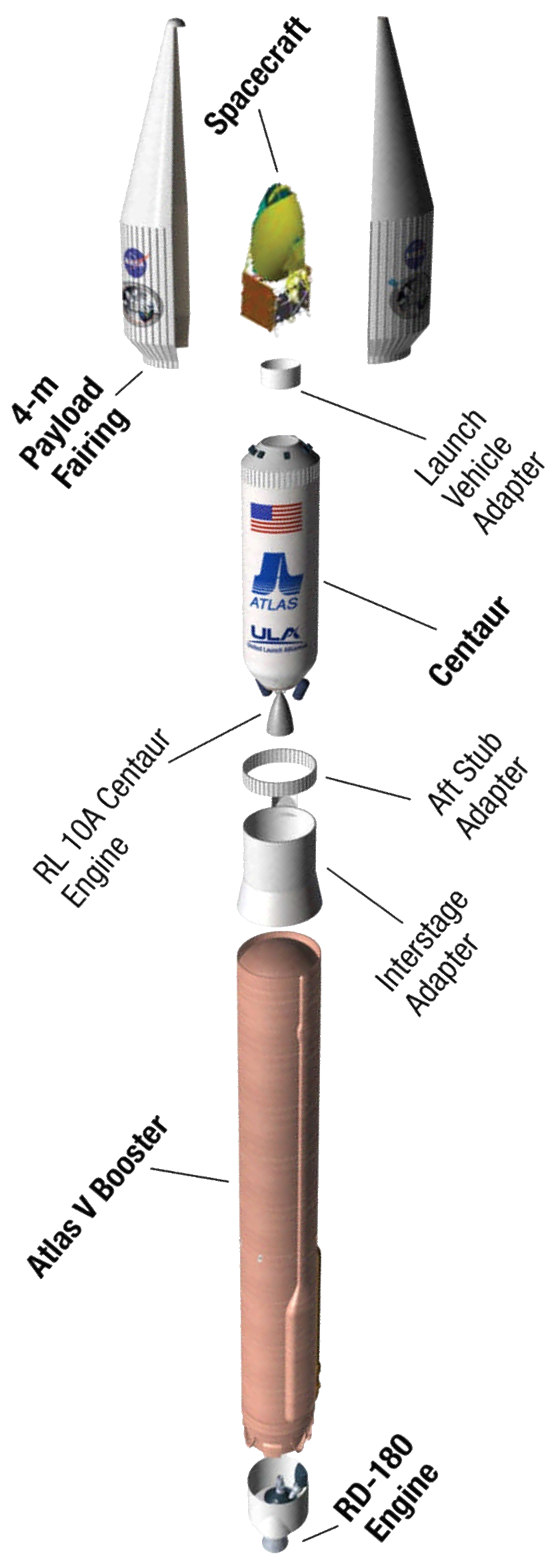 Atlas V Launch Vehicle Diagram